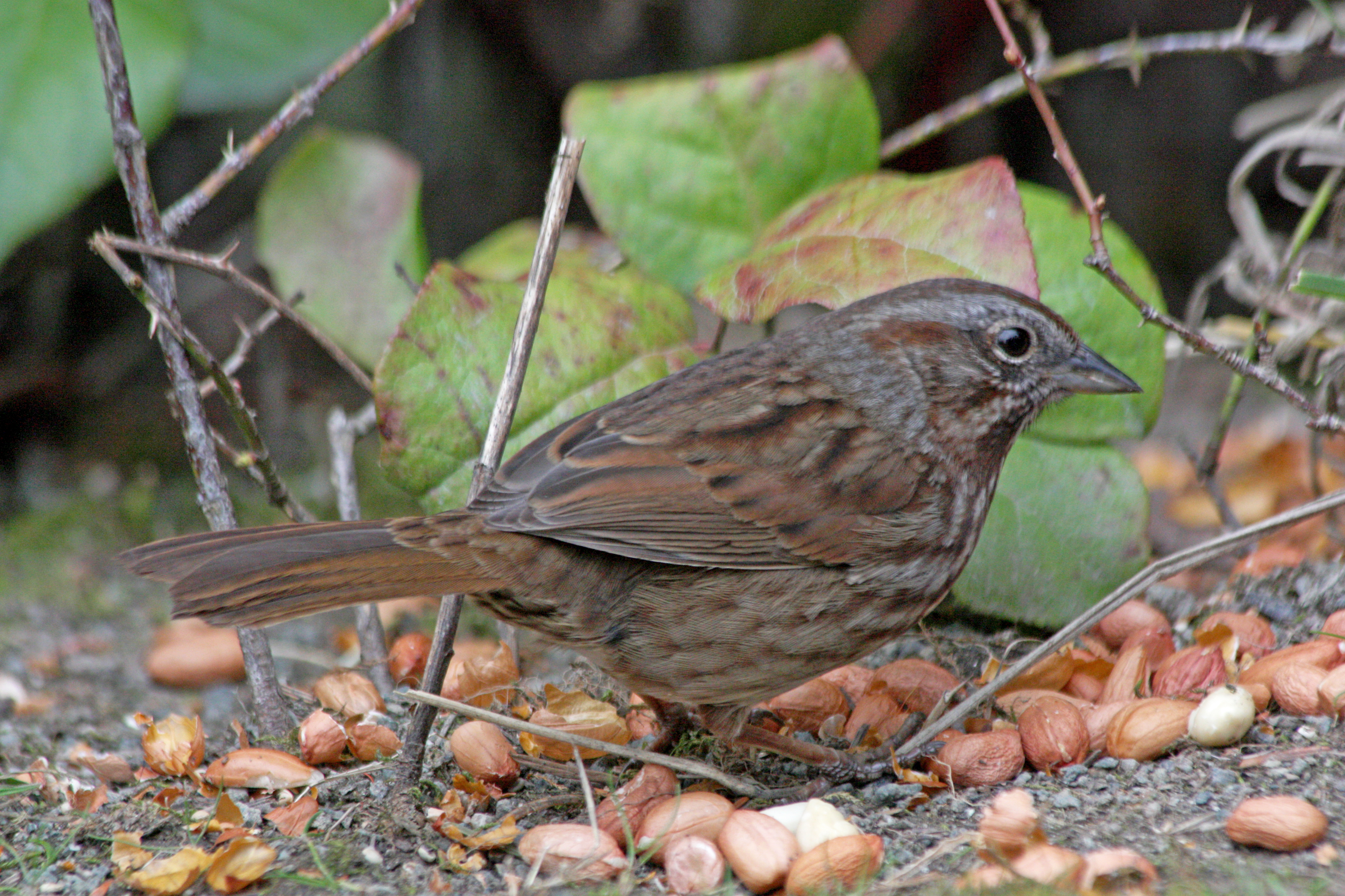 Song Sparrow Melospiza melodia, subspecies M. m. morphna Viewpoint location: Loop Road, Washington Park (Anacortes) Viewpoint elevation: 12 meter (41 ft) Location source: Garmin GPSmap 60CSx Location Datum: WGS84